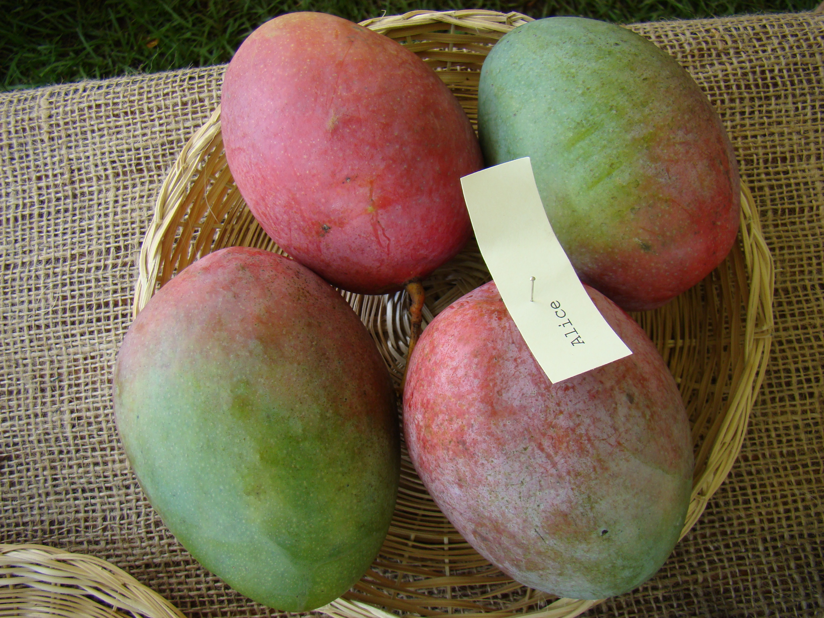 The photo shows a display of ‘Alice’ mangoes at the Redland Summer Fruit Festival held at the Fruit And Spice Park in Homestead, Florida on 21st June, 2008.